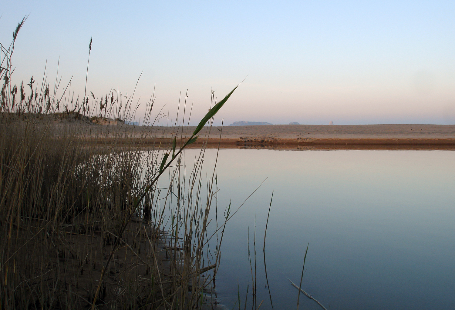 Les Basses d'en Coll, Baix Empordà (Girona, Spain)